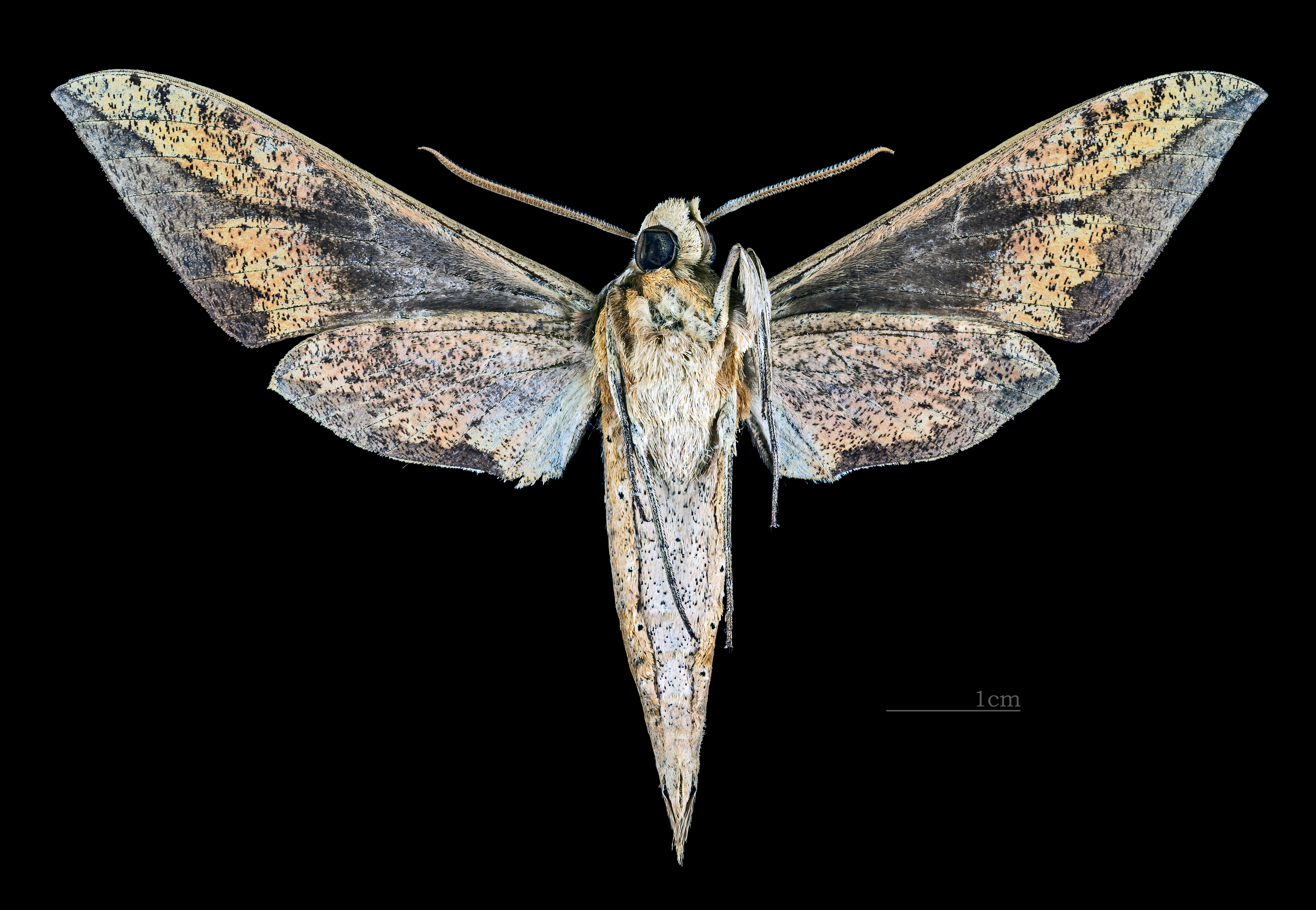 Xylophanes josephinae - △ Ventral side Collection of the Mathematician Laurent Schwartz